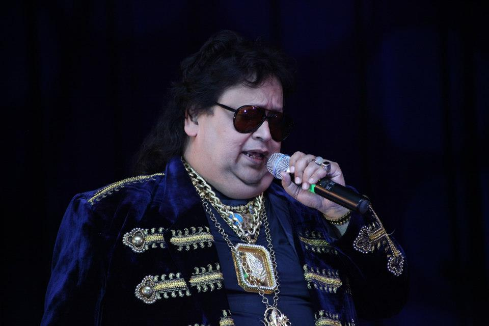 BAPPI LAHIRI